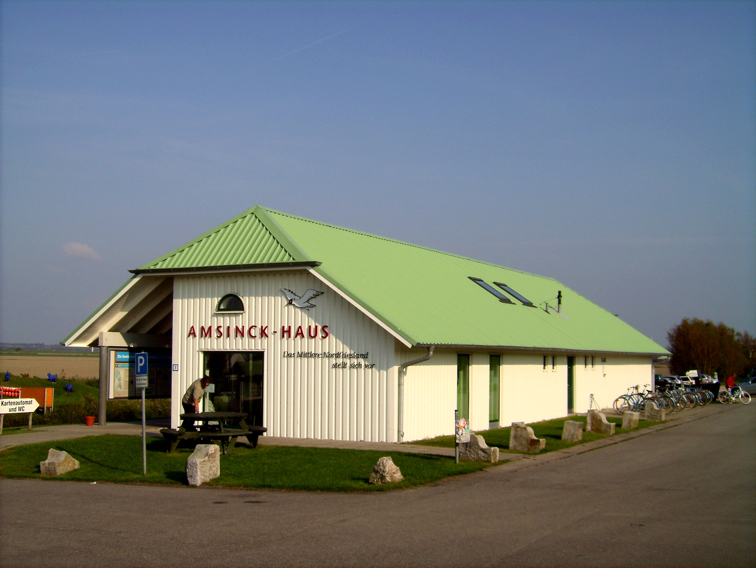 'Amsinckhaus' (Tourist-Information-Center for the municipalities of the Region 'Mittleres Nordfriesland' (en: Middle-North-Frisia), Germany